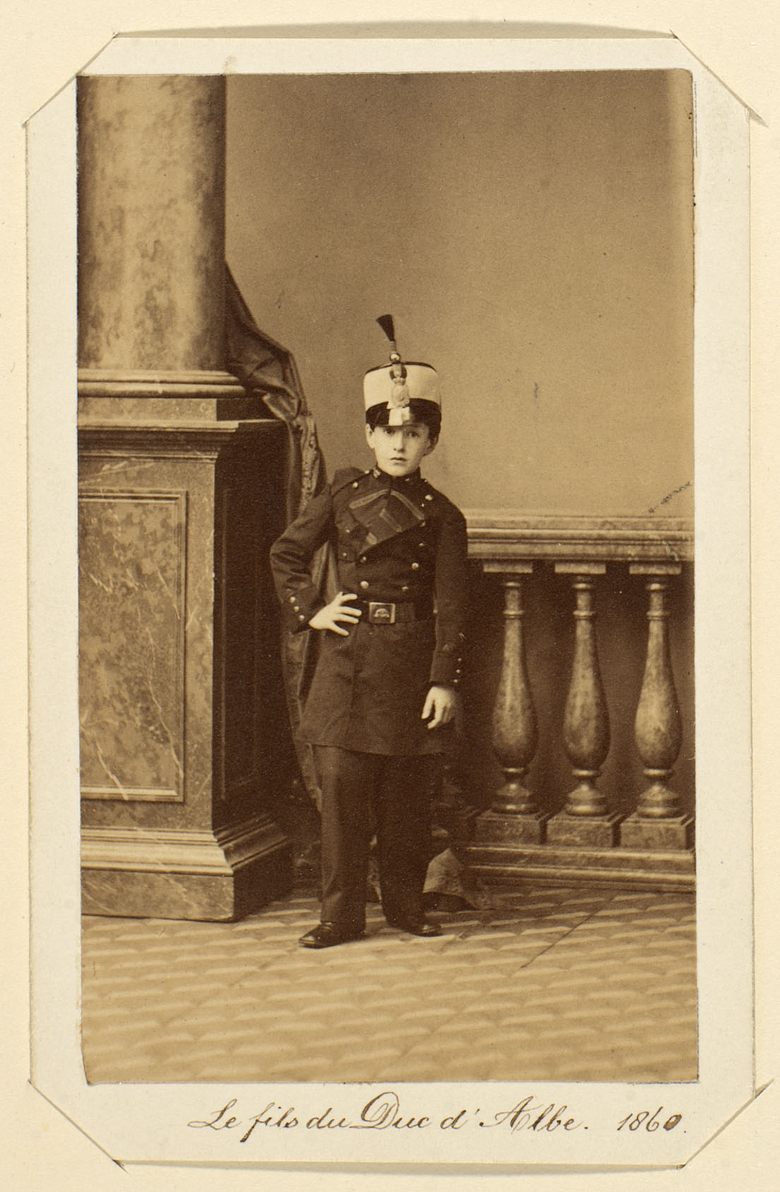 Photographical portrait of Carlos María Fitz-James Stuart, later 16th Duke of Alba, when he was 11 years of age